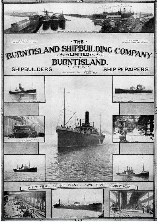 Poster advertising Burntisland Shipbuilding Co., Fife, Scotland